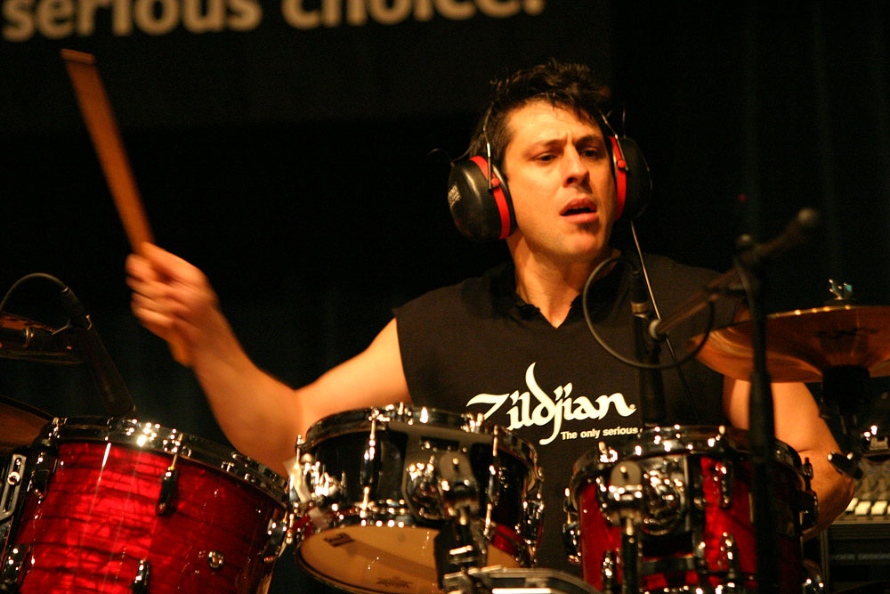 Mike Mangini during his Zildjian-sponsored clinic held at the Percussive Arts Centre, Singapore on the evening of 25 November 2004.